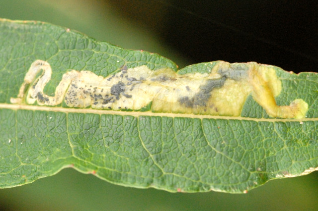 Mompha raschkiella from Commanster, Belgian High Ardennes .